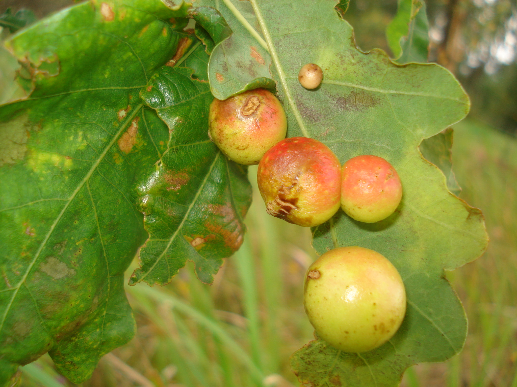 Common Oak Gall-wasp (Cynips quercusfolii)